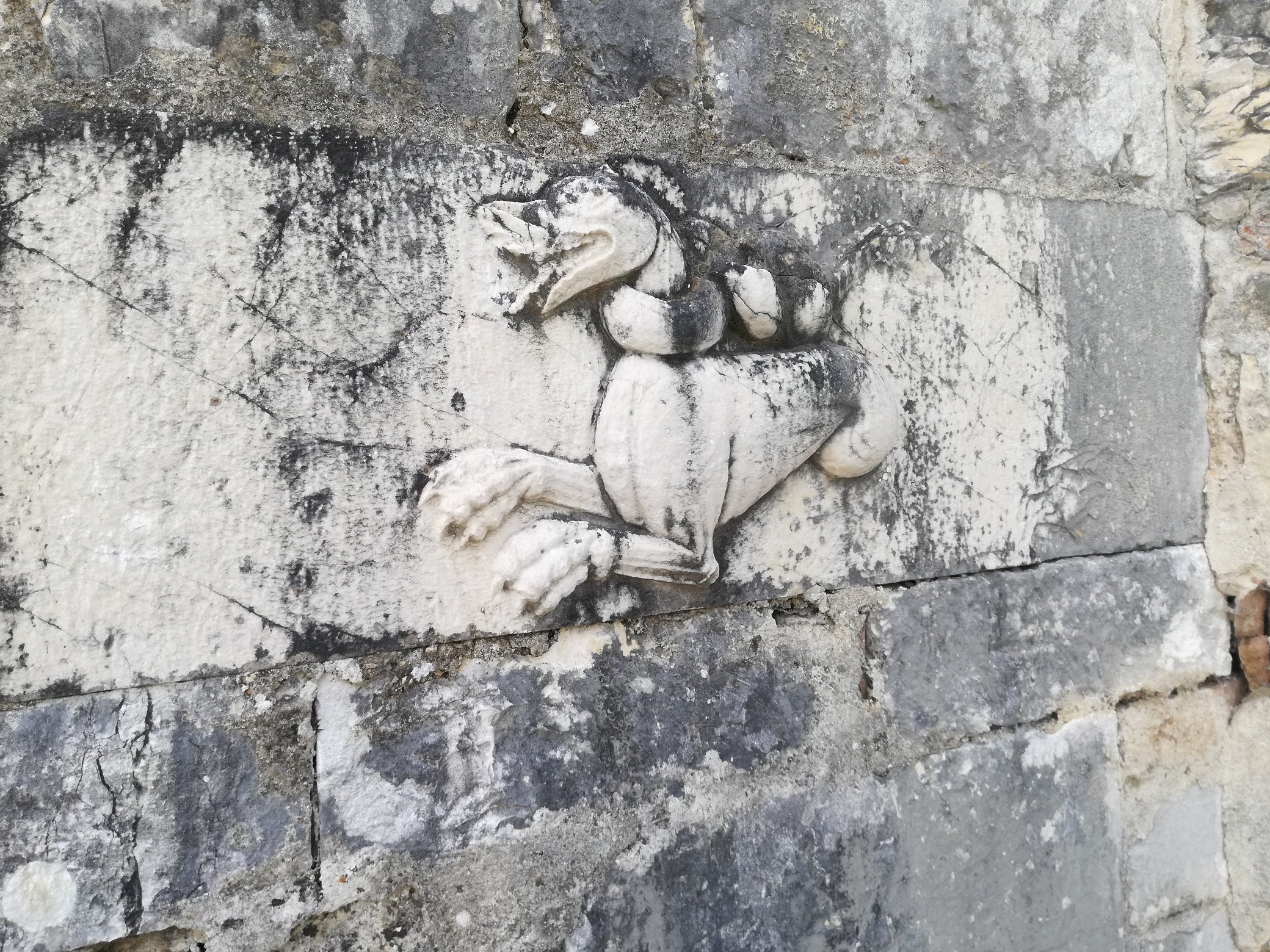 The carving of a Dragon being strangled by a Serpent